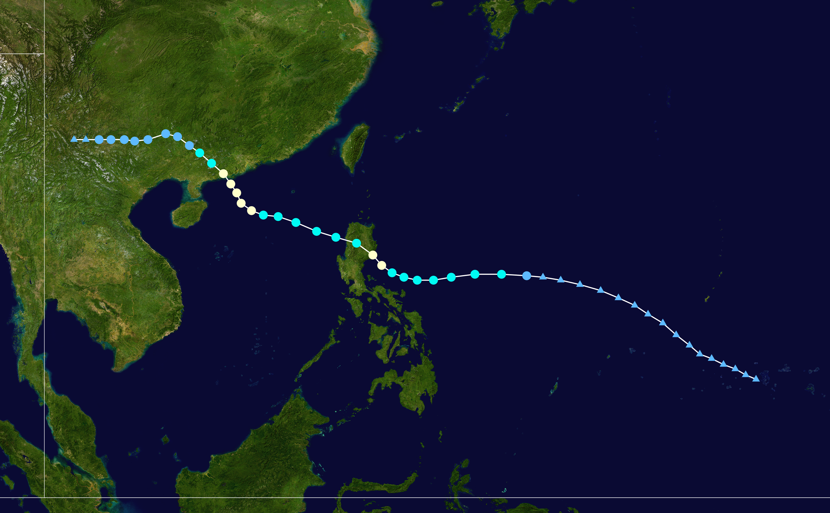 Typhoon Tess 1985 track. Uses the color scheme from the Saffir-Simpson Hurricane Scale.